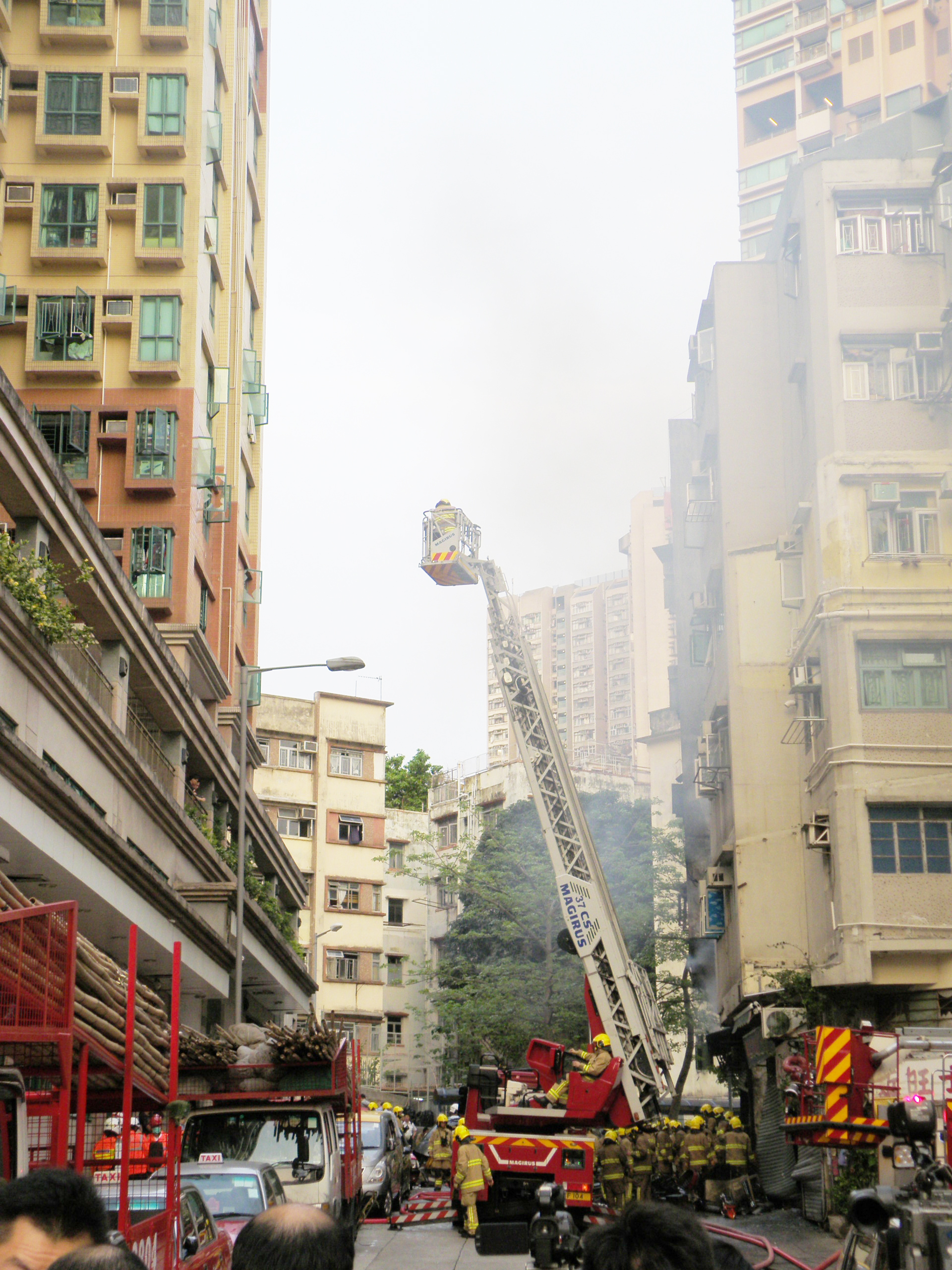 Garage explosion and 3-alarm fire in Tsz Wan Shan, Hong Kong.